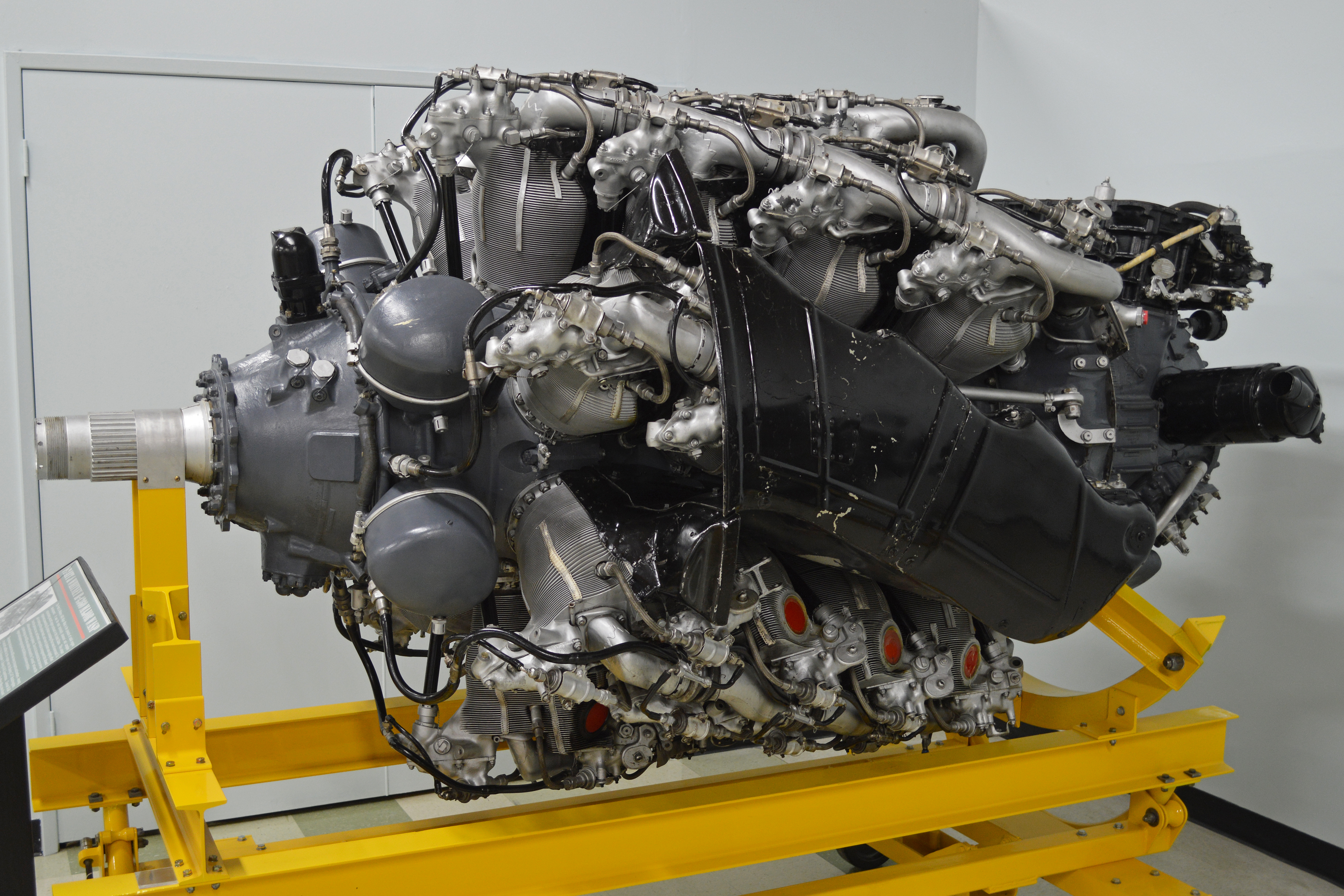 Twenty eight cylinder, four-row radial engine producing 4,300hp. As used in the Boeing B-50 Superfortress and C-97 Stratofreighter, Douglas C-124 Globemaster II and Convair B-36 Peacemaker. It also powered the Goodyear F2G Corsair! On display in the Travis AFB Heritage Center, CA. 5th March 2016